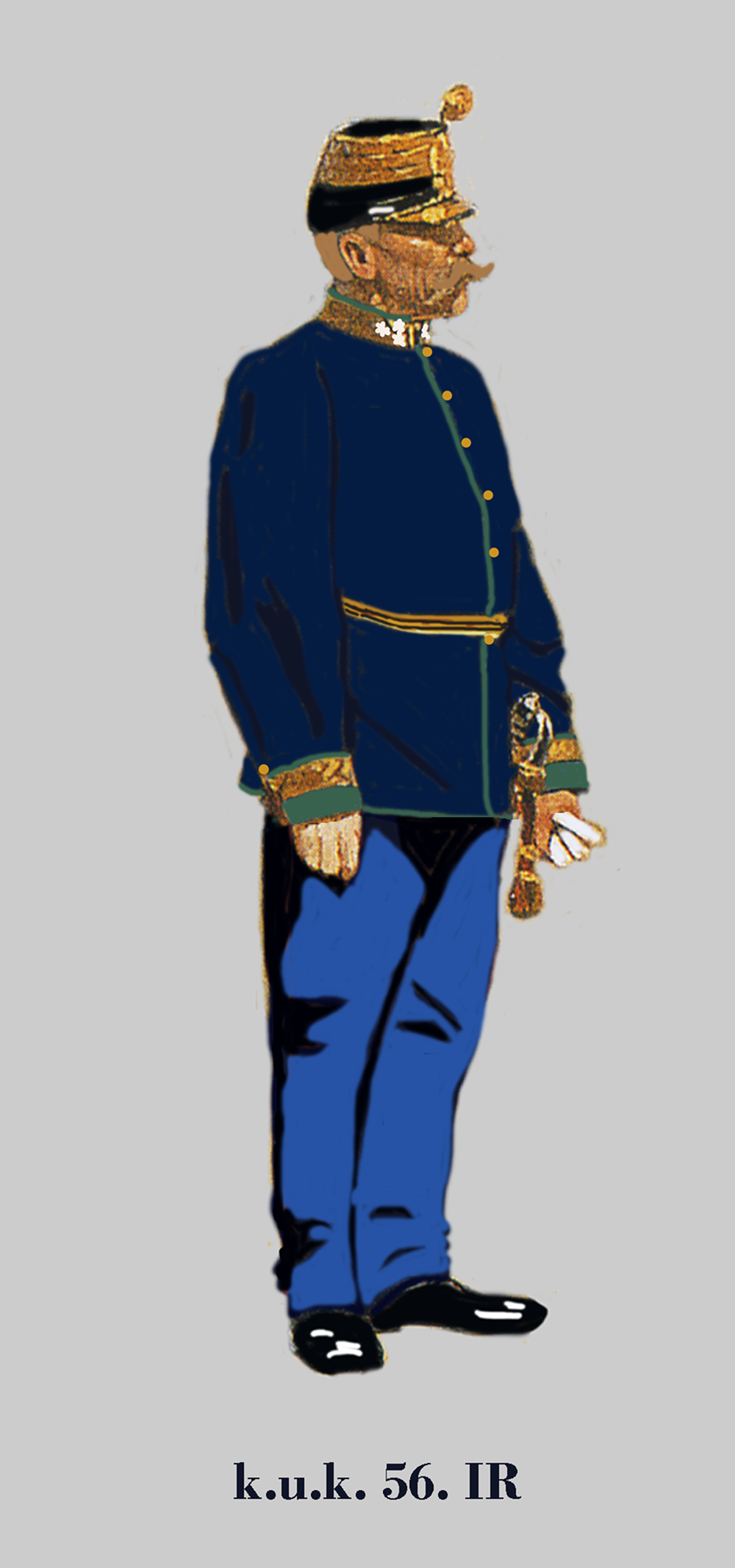 Colonel of the Austria-Hungarian (k.u.k.). 56th german Infantry Regiment in Parade dress 1914